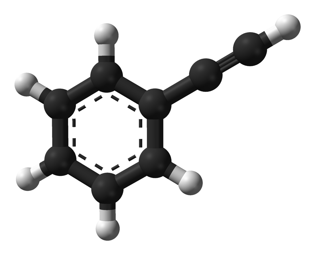 Ball-and-stick model of the phenylacetylene molecule.